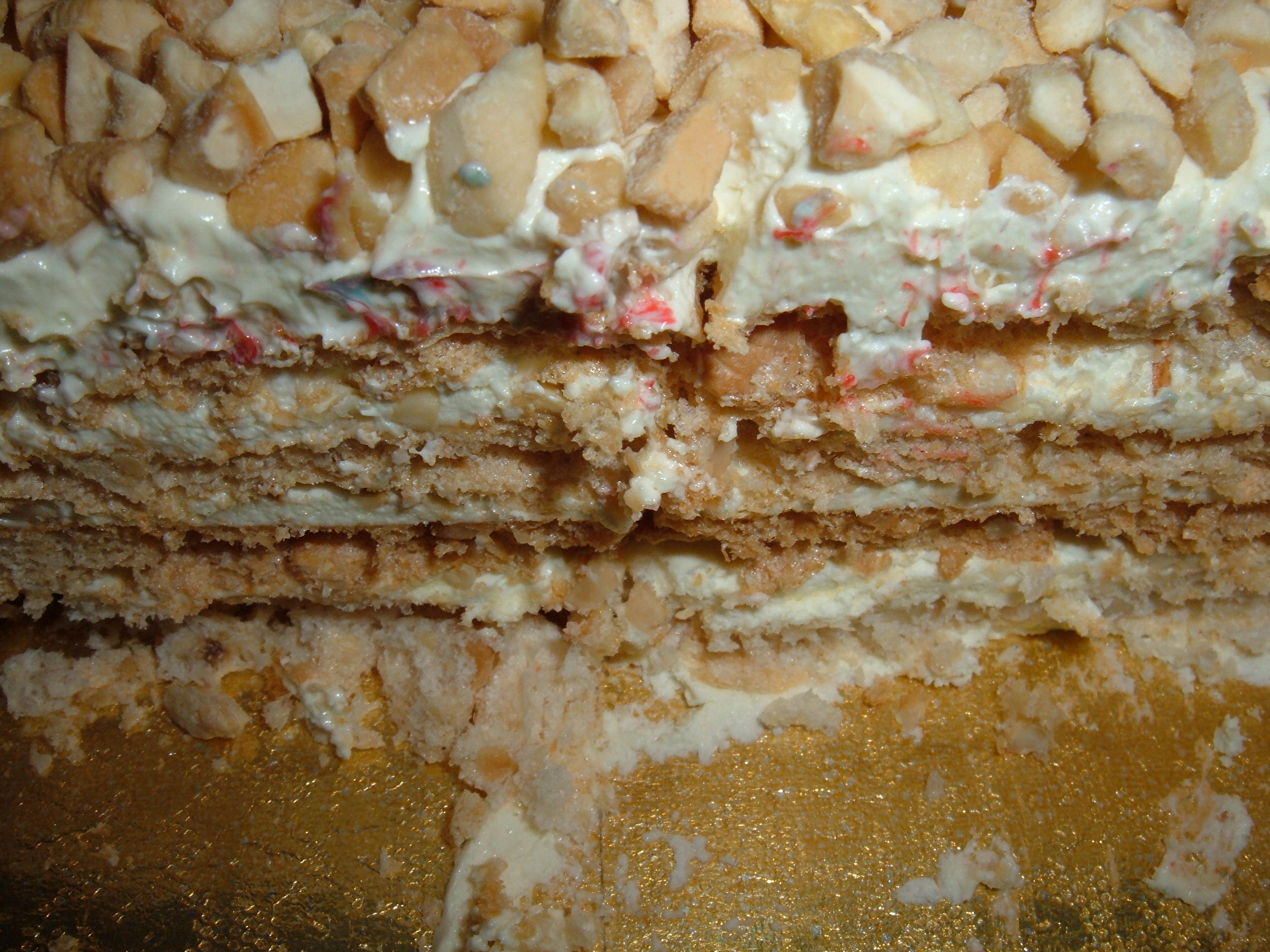 A cross-section of sans rival, showing the multiple layers.